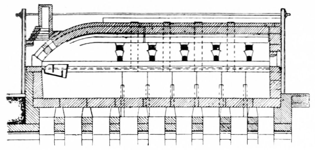 Siemens tank furnace longitudinal section